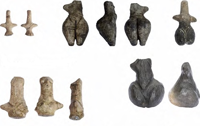 Selction of Galabnik Figurines